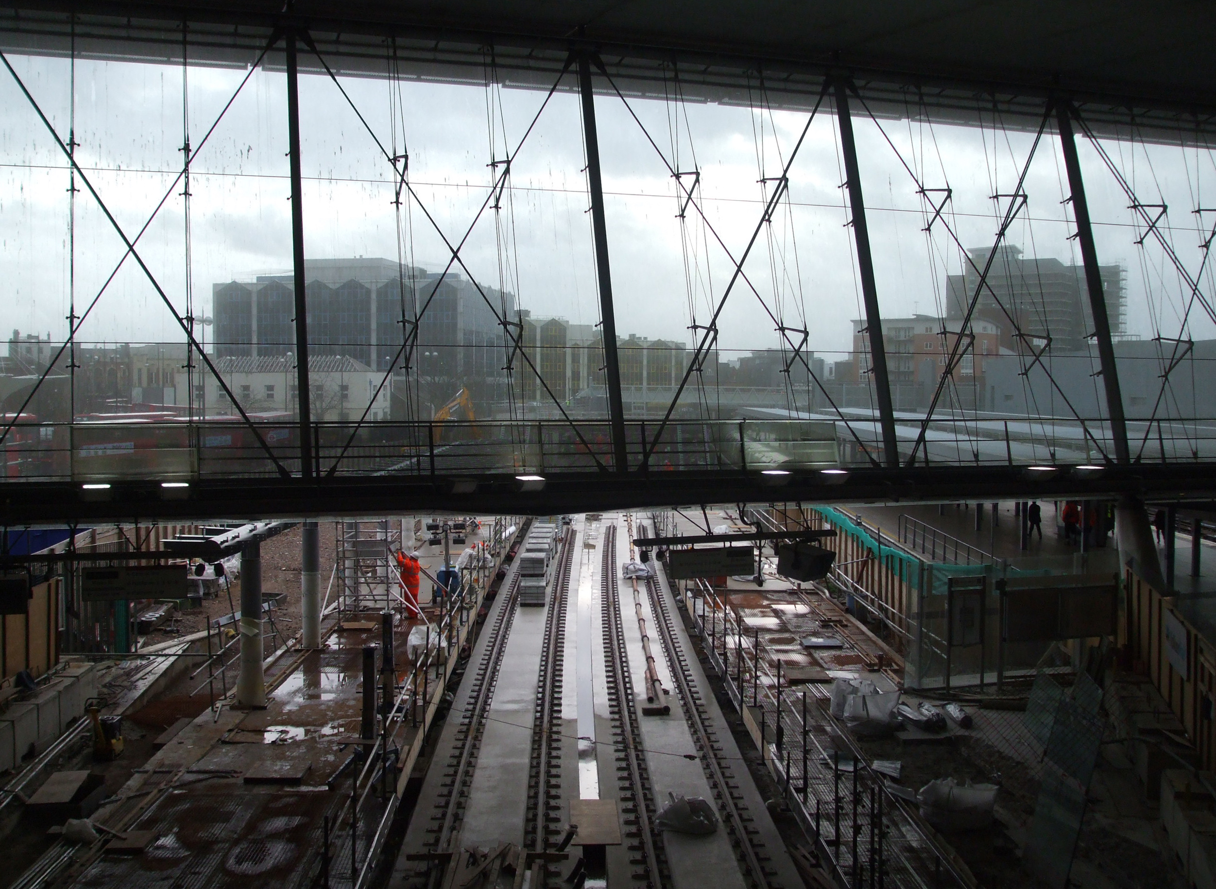 New platforms DLR platforms under construction at Stratford station, looking south. Date: December 2009. Until April 2009, these were London Overground North London Line platforms. The DLR branch to Stratford International is due to open in mid-2010.